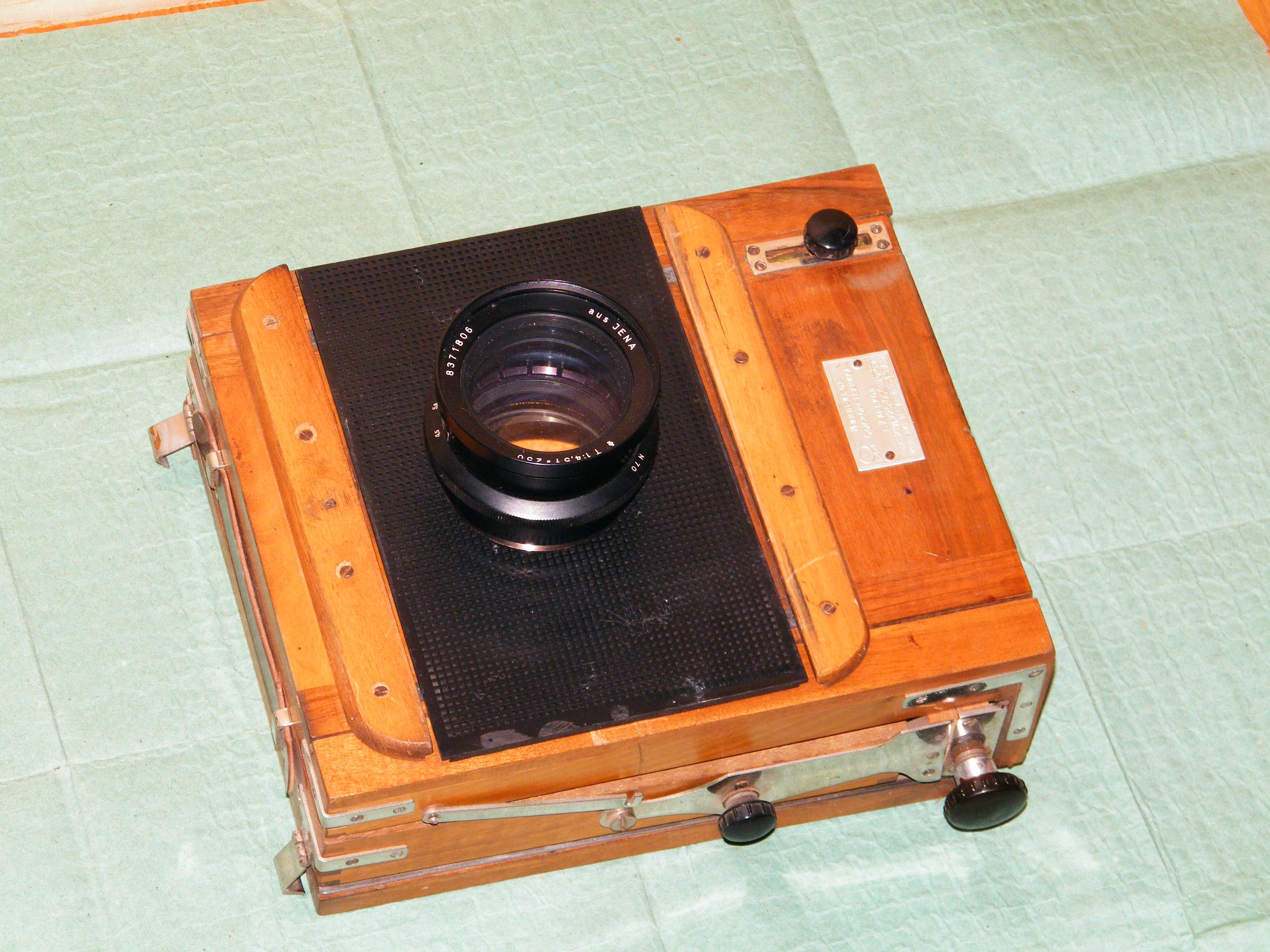 FKD cameras